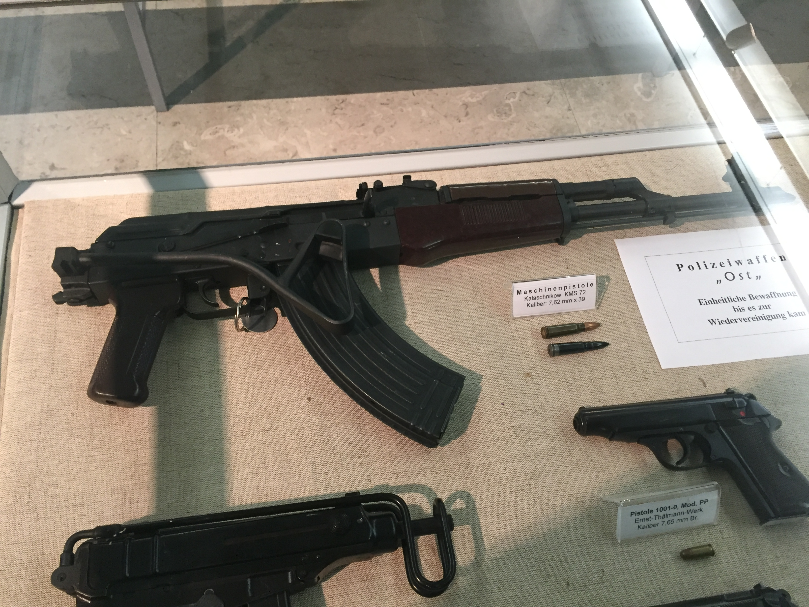 Police museum in Berlin